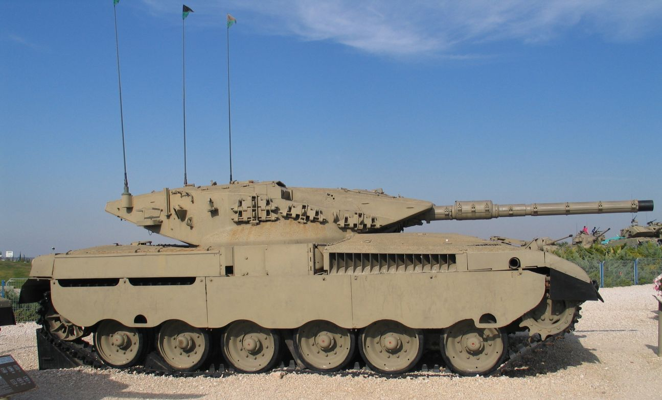 Description: Israeli Merkava Mk I MBT in Yad la-Shiryon Museum, Israel. 2005. Source: Photo by me, User:Bukvoed.